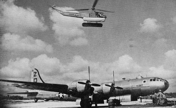 500th Bomb Group B-29 on Saipan with Helicopter overhead, 1945